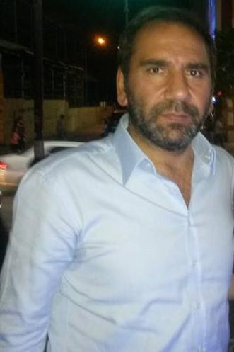 Mecnun Otyakmaz, the Chairman of Sivasspor in Sivas.